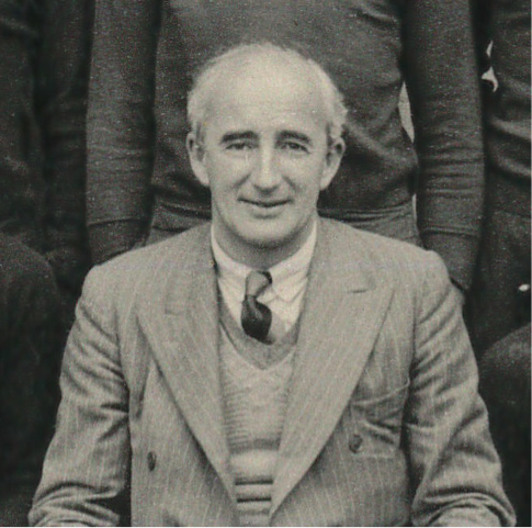 A photo of Professor Campbell taken on the rugby pitch at the University of Bangor, Wales.